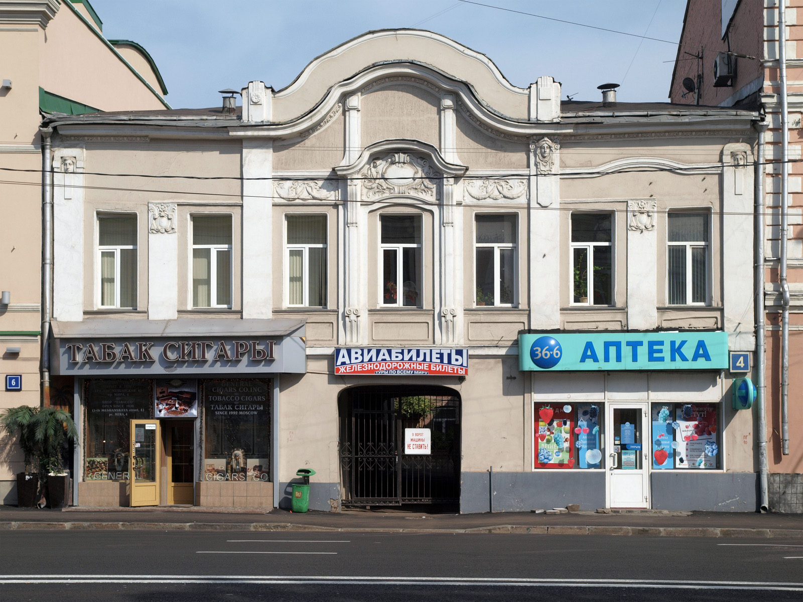 Prospect Mira, Moscow.